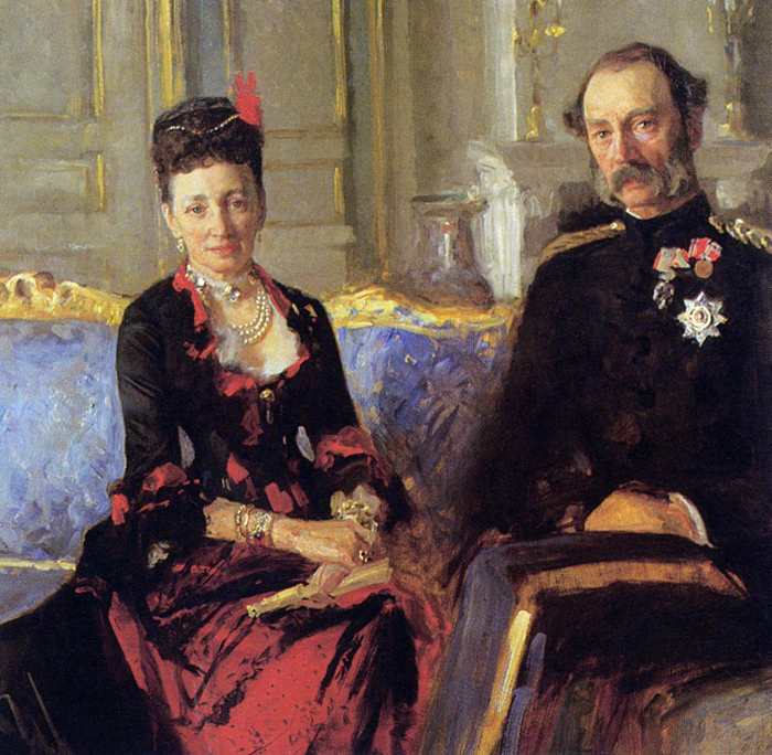 Queen Louise and King Christian IX of Denmark.jpg